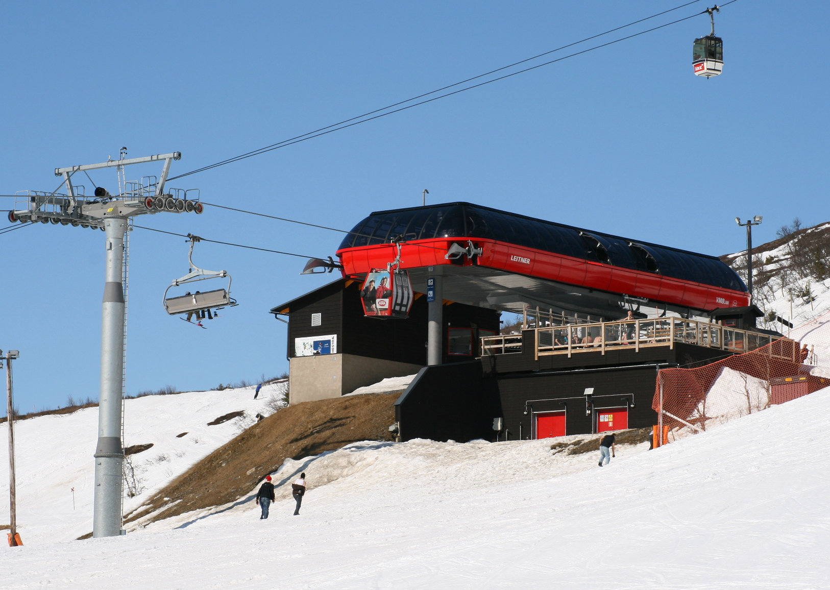 Mountain station of the hybrid lift "VM8:an" in Åre ski area.